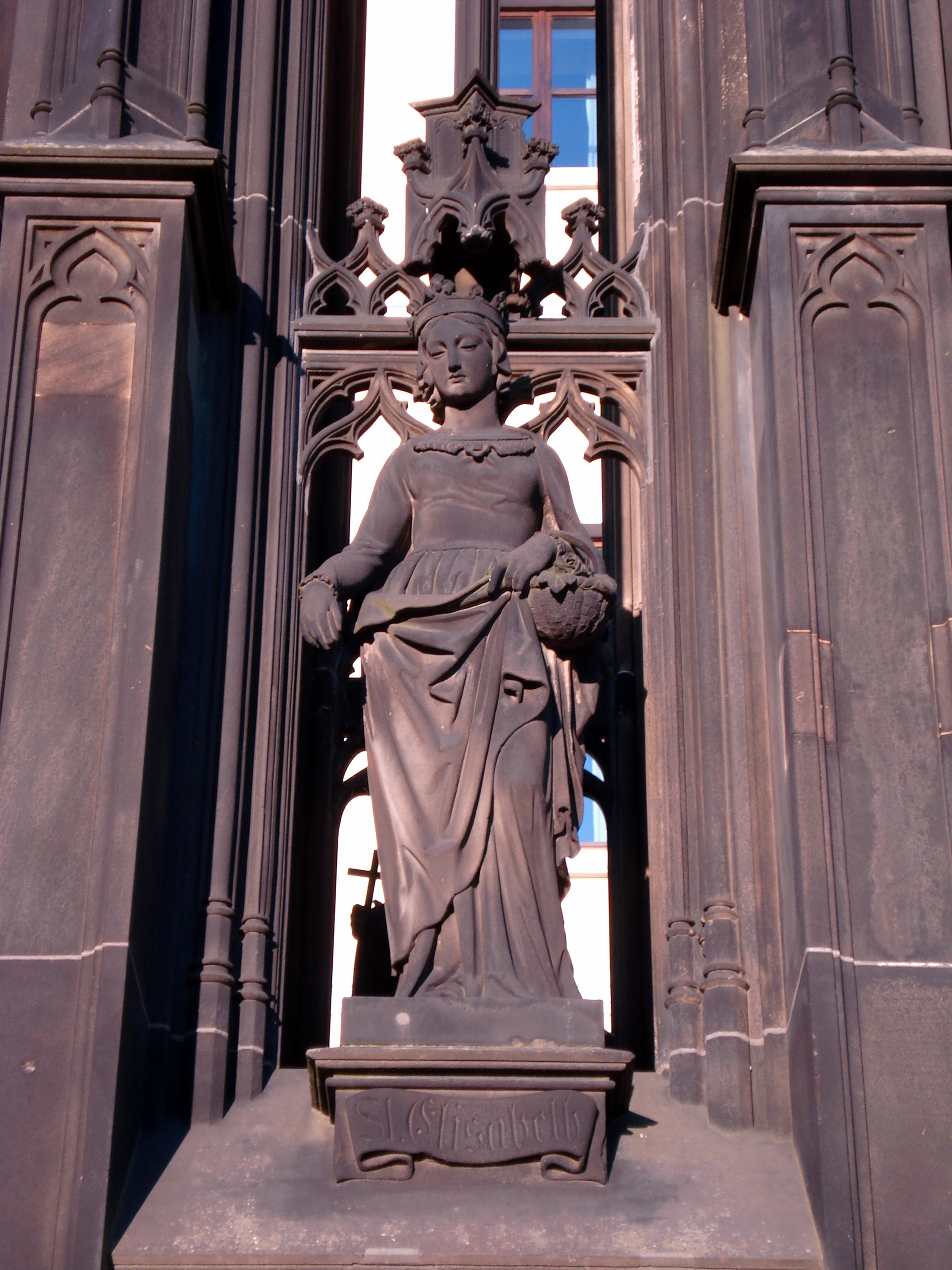 The Cholera fountain in Dresden.